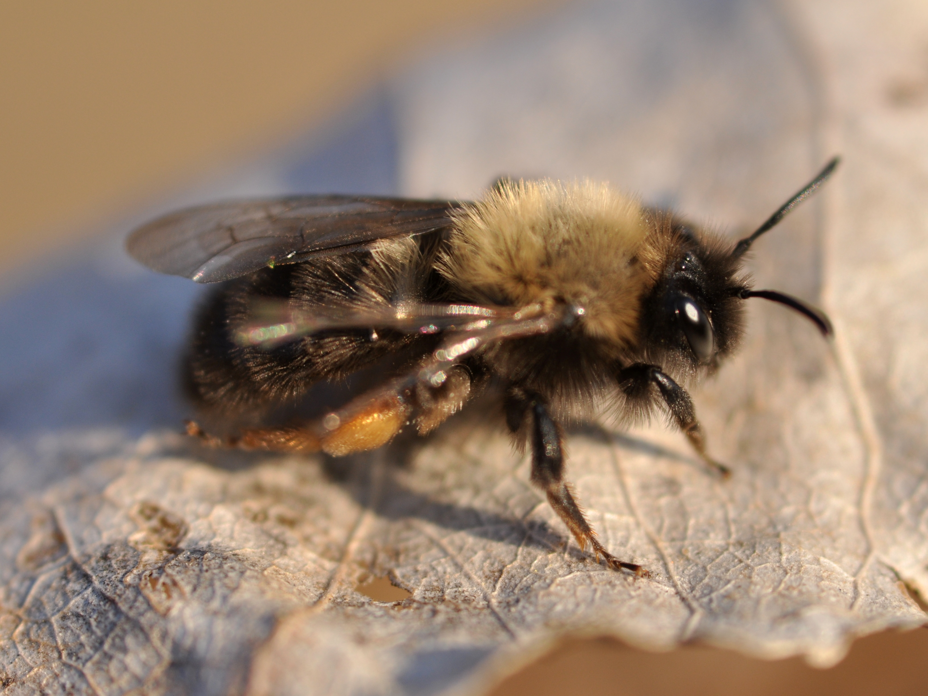 Andrena clarkella female in Kirchwerder, Hamburg.